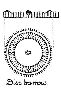 Disc barrow plan and section, cropped from a Heywood Sumner illustration in Frank Stevens' "Stonehenge Today and Yesterday"